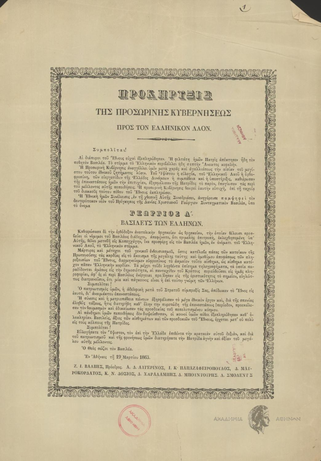 Declaration of the temporary Government of Zinovios Valvis of acceptance of George the 1st as King the Greeks